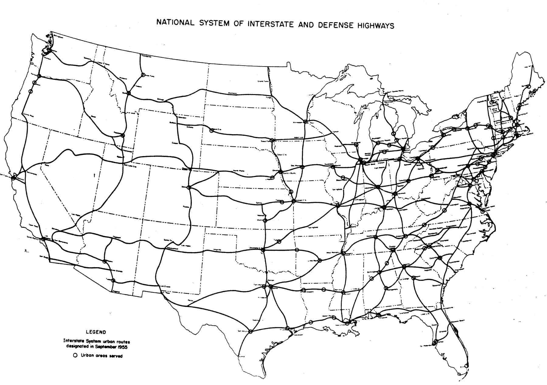 Major changes from August 2, 1947 (in today's terms) I-8 no longer serves Phoenix I-80 shifted south in Pennsylvania, forming the separate I-380 I-135 added in Kansas I-495 added around Boston City map from the 1955 "Yellow Book" of Interstate Highway System plans